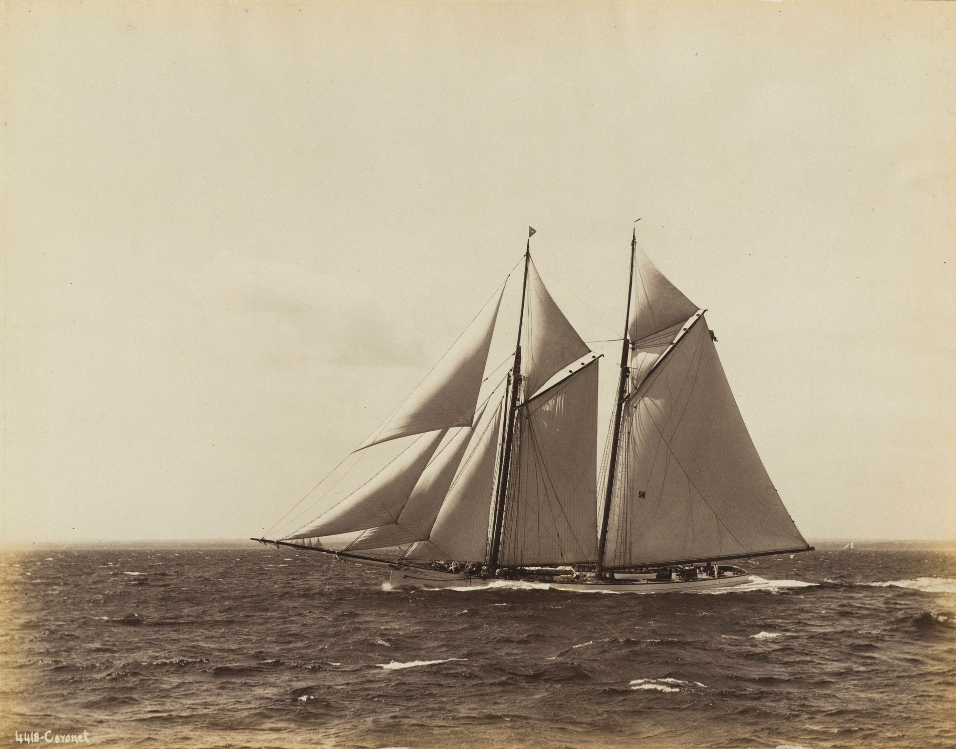 John D. Wing's schooner Coronet racing in New York on August 7th, 1893. She finished the race in last position on corrected time. New York Times - A Fine Contest Between the Big Schooners